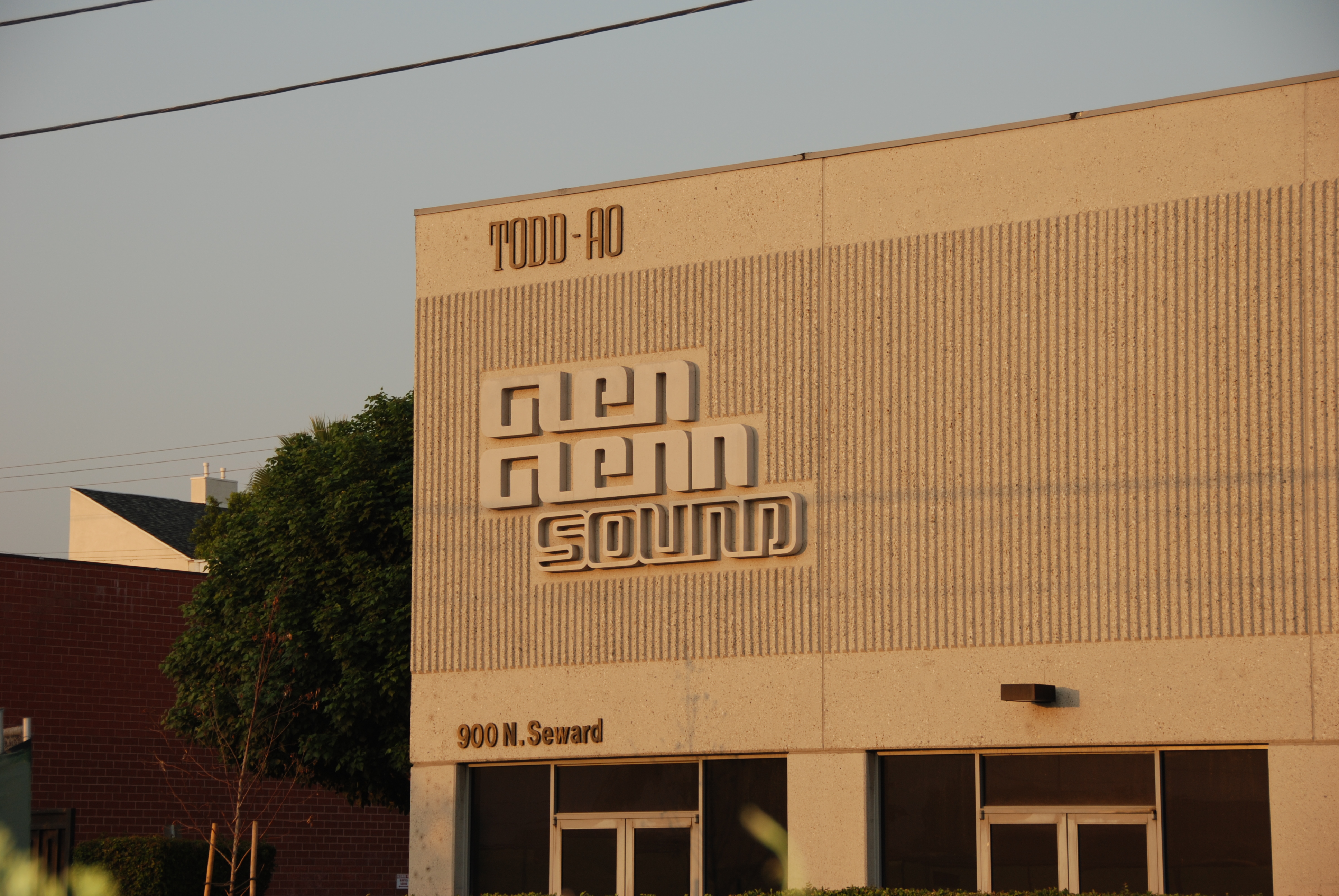 The Glen Glenn Sound Studio, Hollywood, CA.